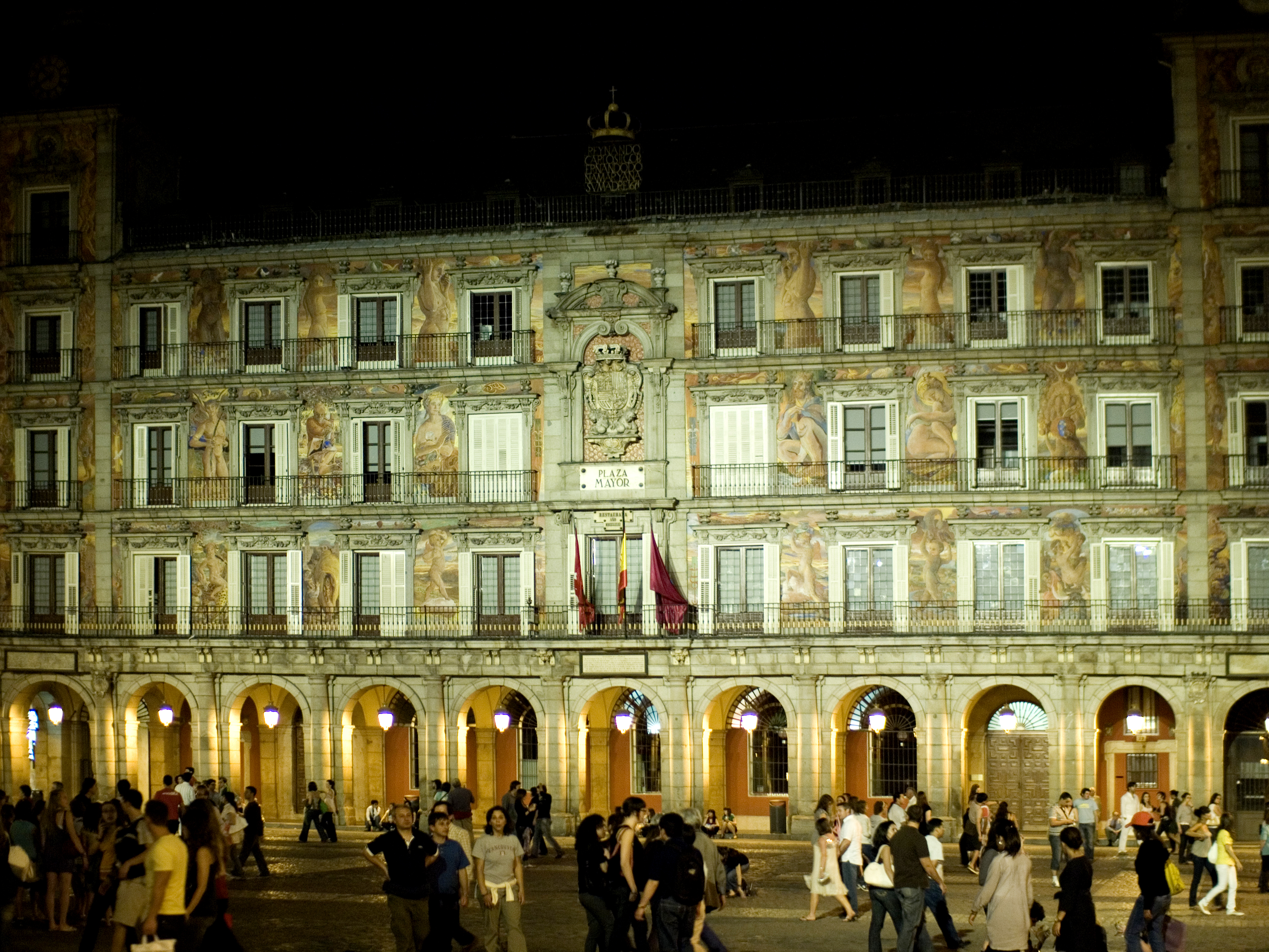 Night view of Casa de la Panadería (building), at Plaza Mayor (square) in Madrid (Spain).